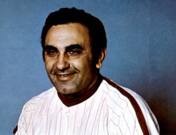 Professional baseball manager Frank Lucchesi